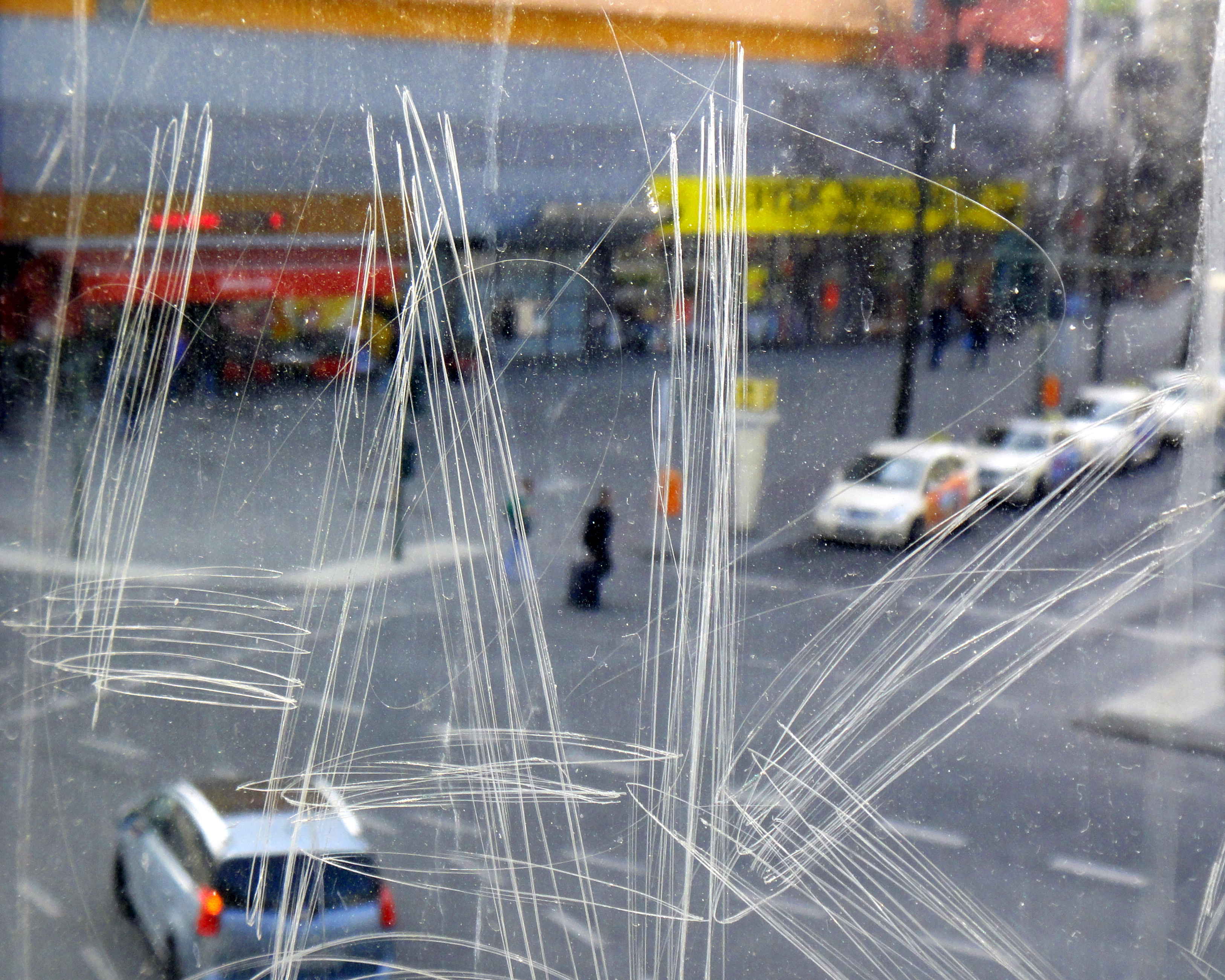 Nollendorfplatz, Berlin-Schöneberg, as seen through a scratched underground window.